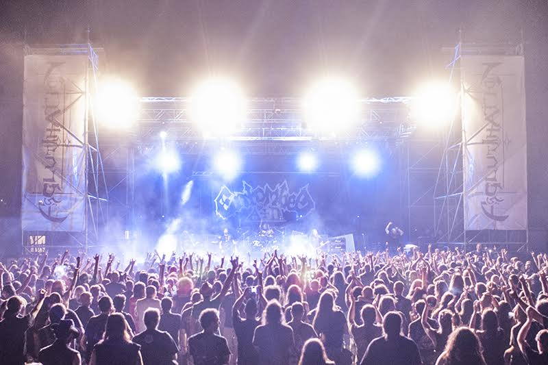 Entombed A.D. performing at the Agglutination Metal Festival